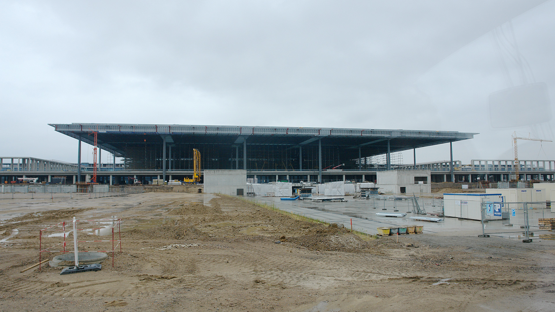 Construction site of the main terminal of the new Airport Berlin Brandenburg (BER).